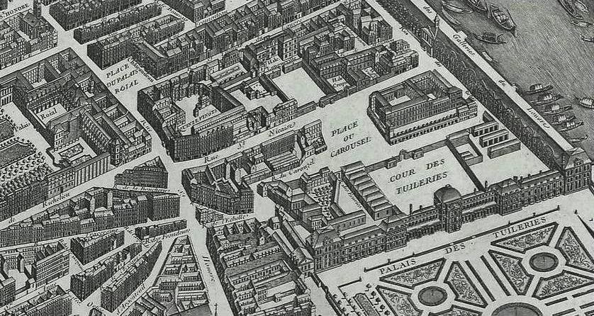 The place du Carrousel on the "Plan de Turgot"